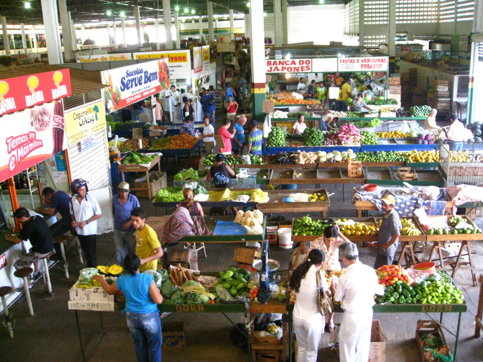 Inside of the Montes Claros Market Hall, Minas Gerais, Brazil.